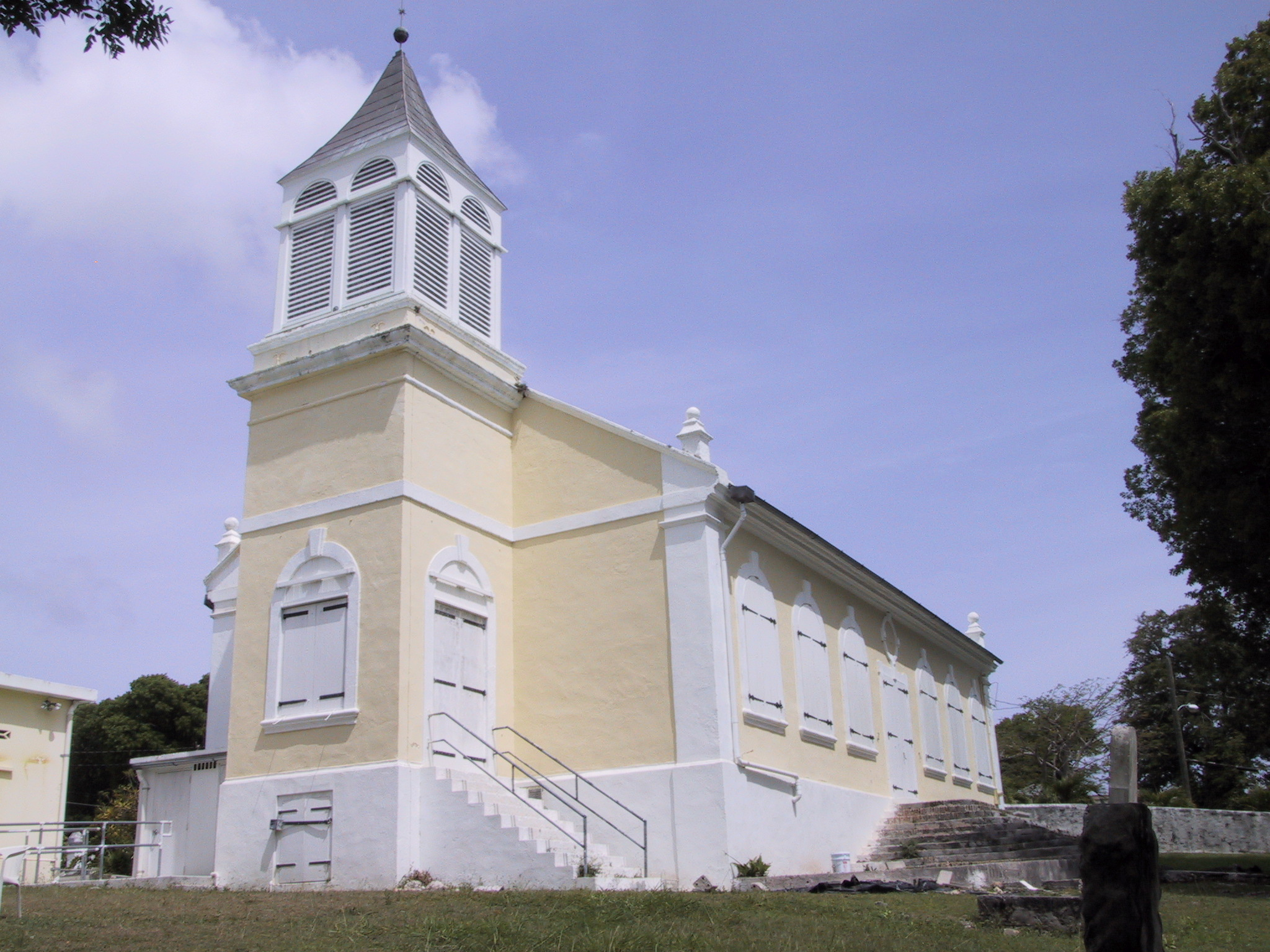 Holy Trinity Lutheran Church, Frederiksted, St. Croix